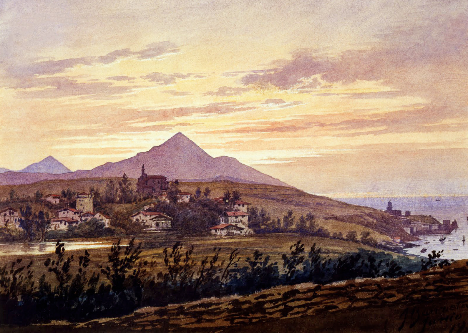 View of Sestao and Portugalete